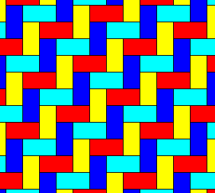 Herringbone pattern, hexagonal tiling variation